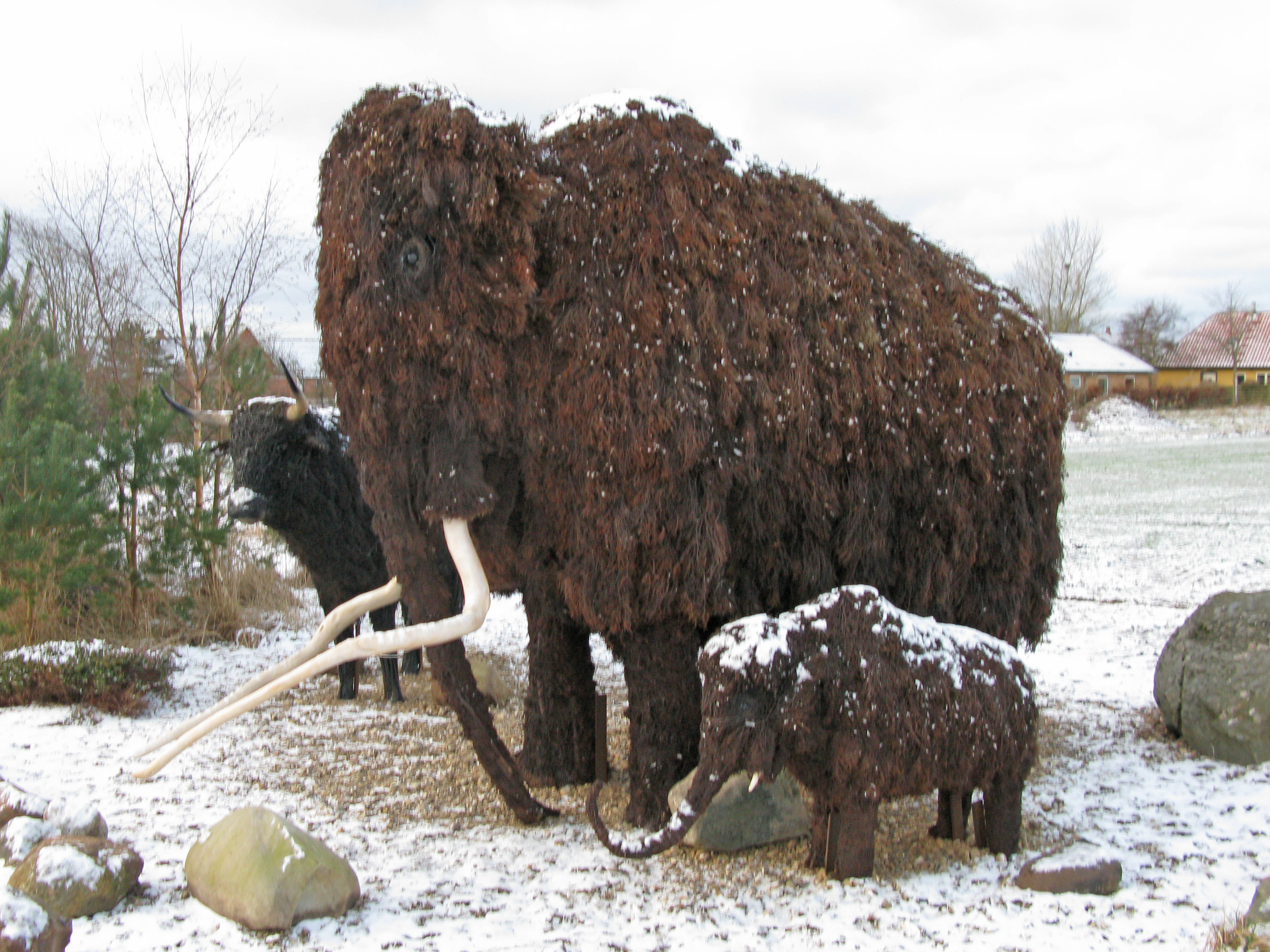 Mammut in the snow